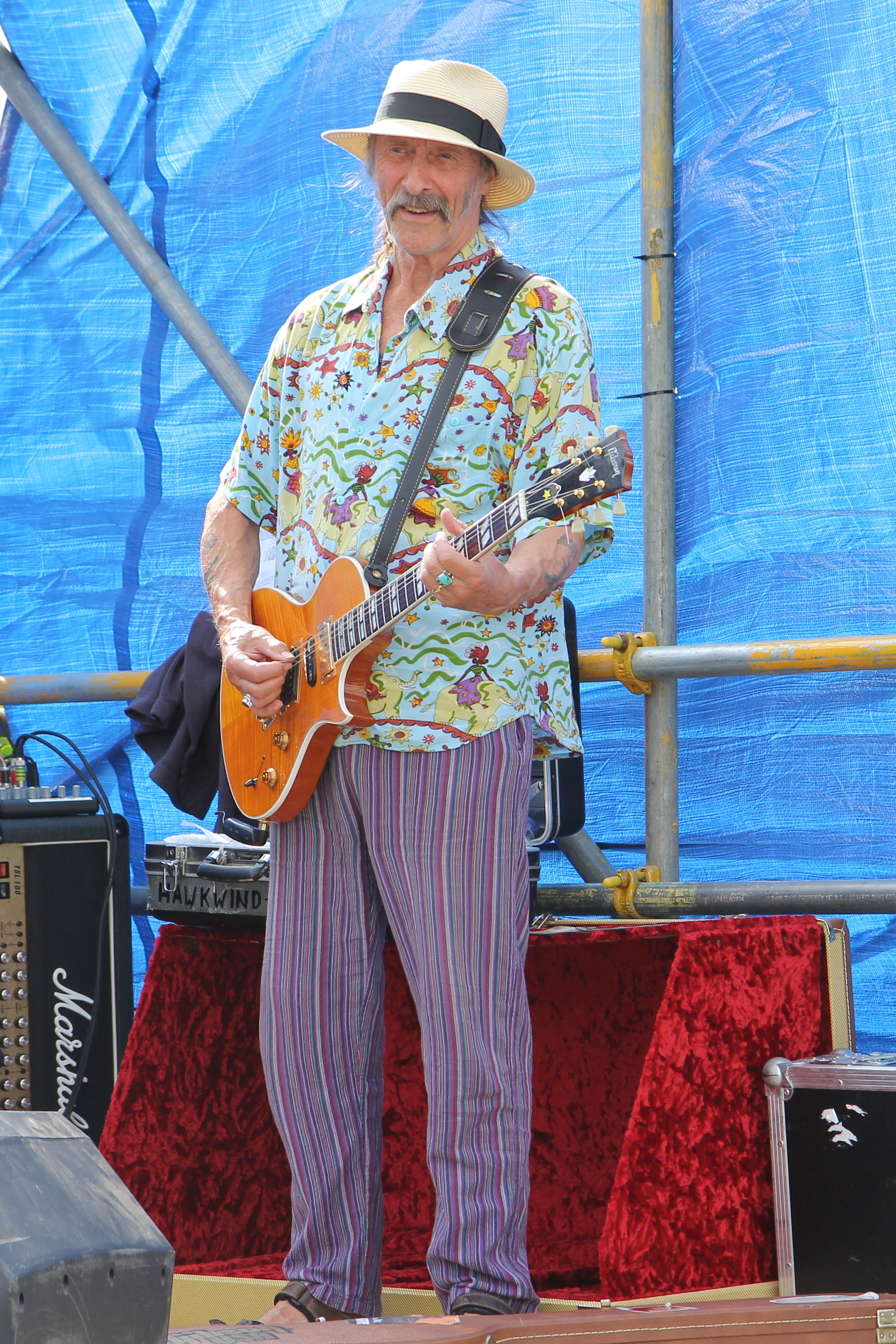 Dave Brock playing with 'The Elves of Silbury Hill' - a Hawkwind spin-off - at the Dorset and Somerset Air Ambulance fundraising event, August 2015.